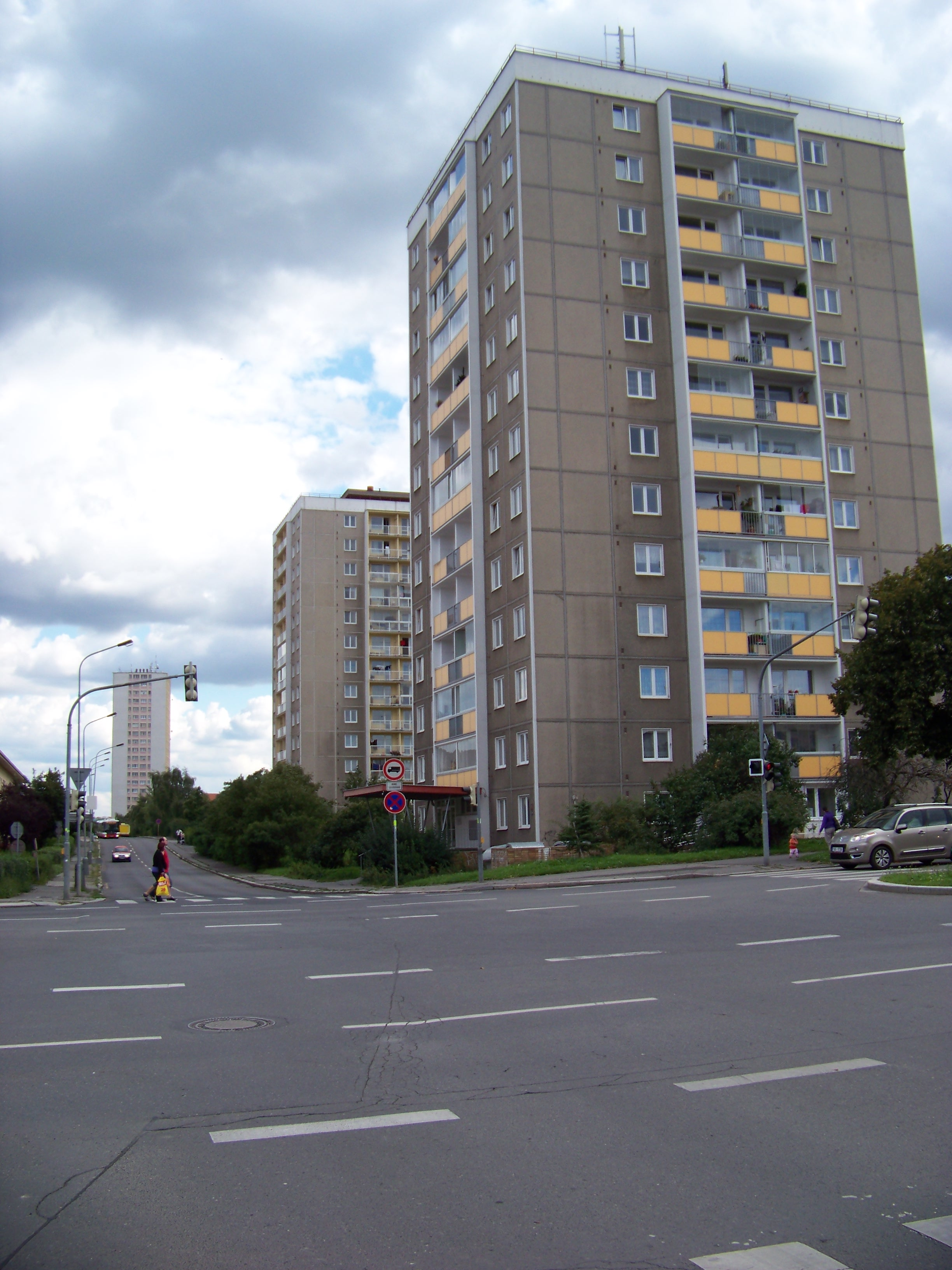 Prague-Malešice, the Czech Republic. Limuzská street, seen from Počernická street.